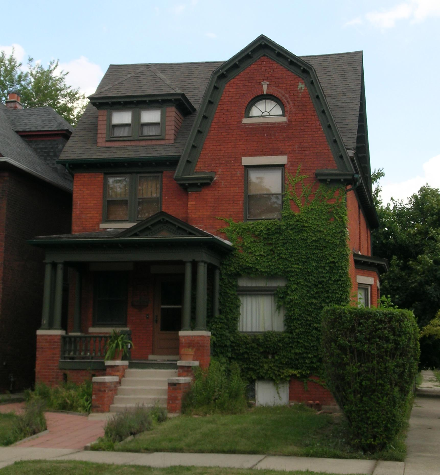 House on Avery in Woodbridge, Detroit. Historic district contributing property to the Woodbridge Neighborhood Historic District.